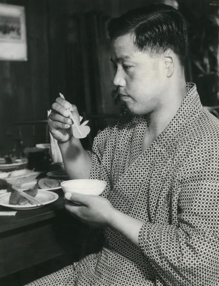 1932 Press Photo Yoshio Okita field coach of Japanese Olympic team